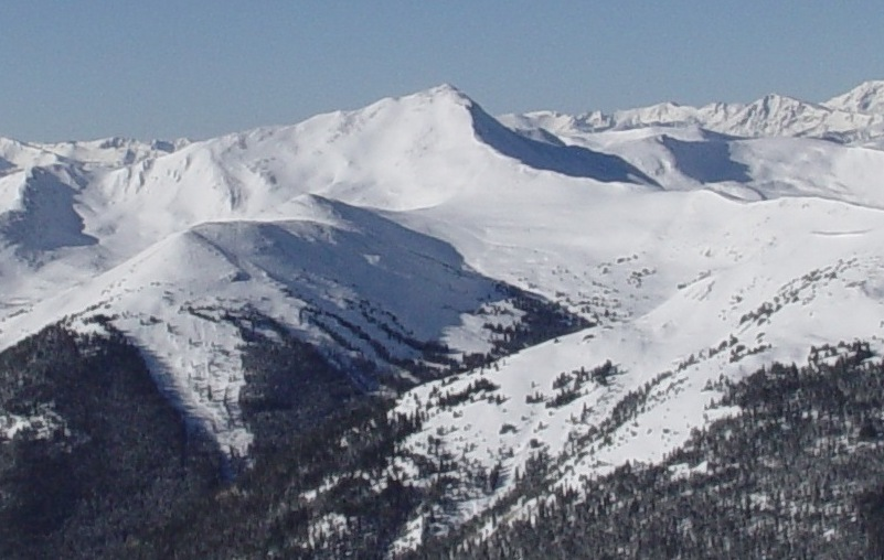 The view from the Peak 8 summit at Breckenridge Ski Resort facing West. The back side of Copper Mountain (Colorado) is visible, including Copper Peak, Tucker Mountain, and Union Peak. The Resolution lift is visible in the middle of the collection of runs below Copper Peak, Highline, Sawtooth, Cabin Chute, Cross Cut, and the Spaulding Glades in addtion to the Spaulding Bowl and Resolution Bowl.